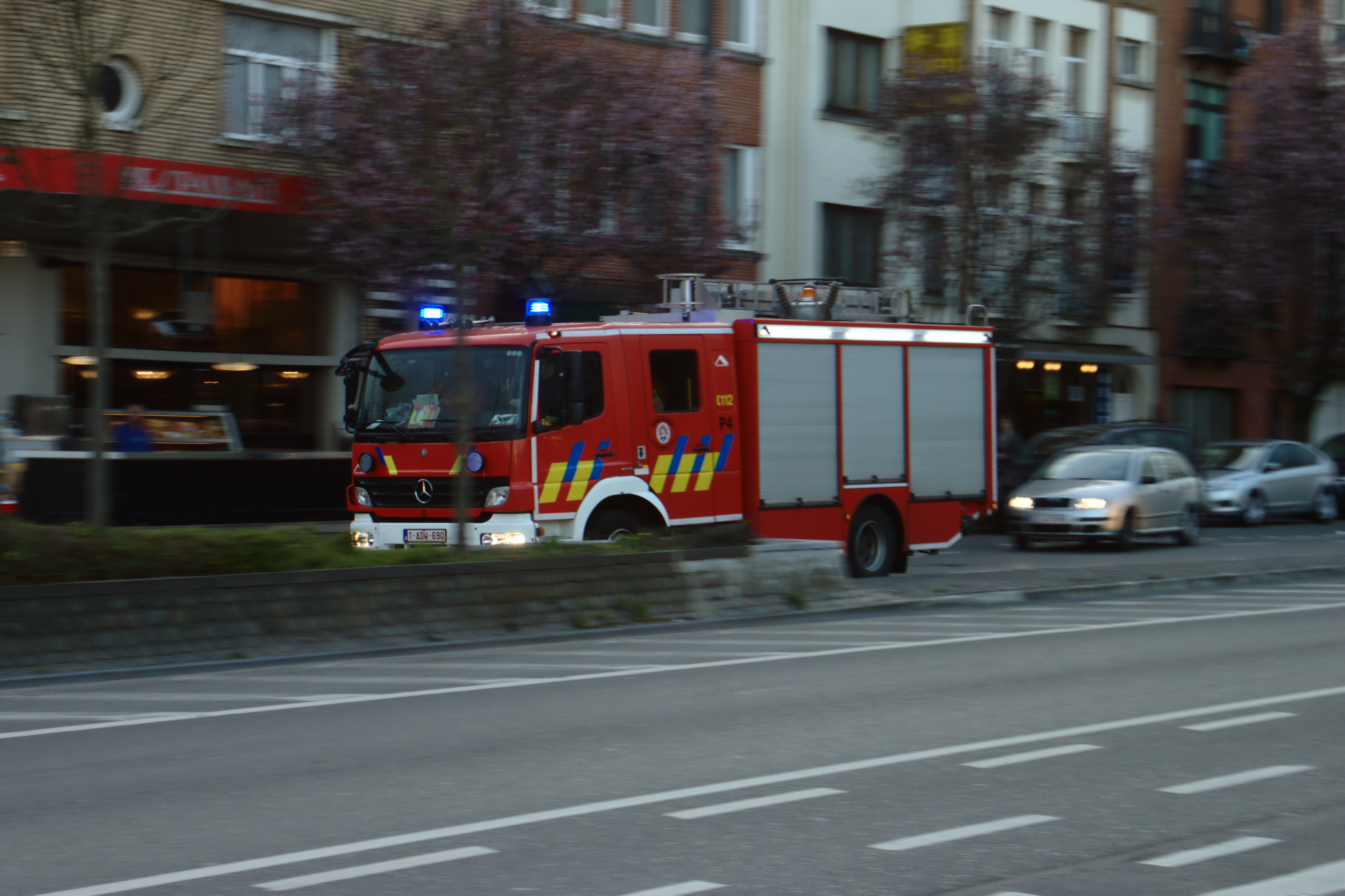 A firefighters car at Houba de Stooper Street, Brussels, Belgium